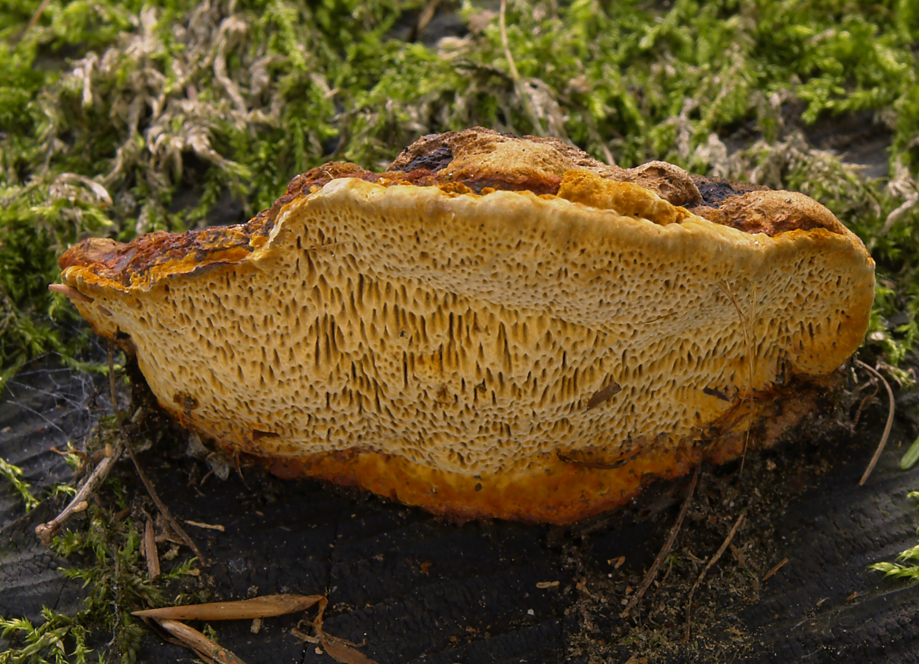 Anise Mazegill (Gloeophyllum odoratum)